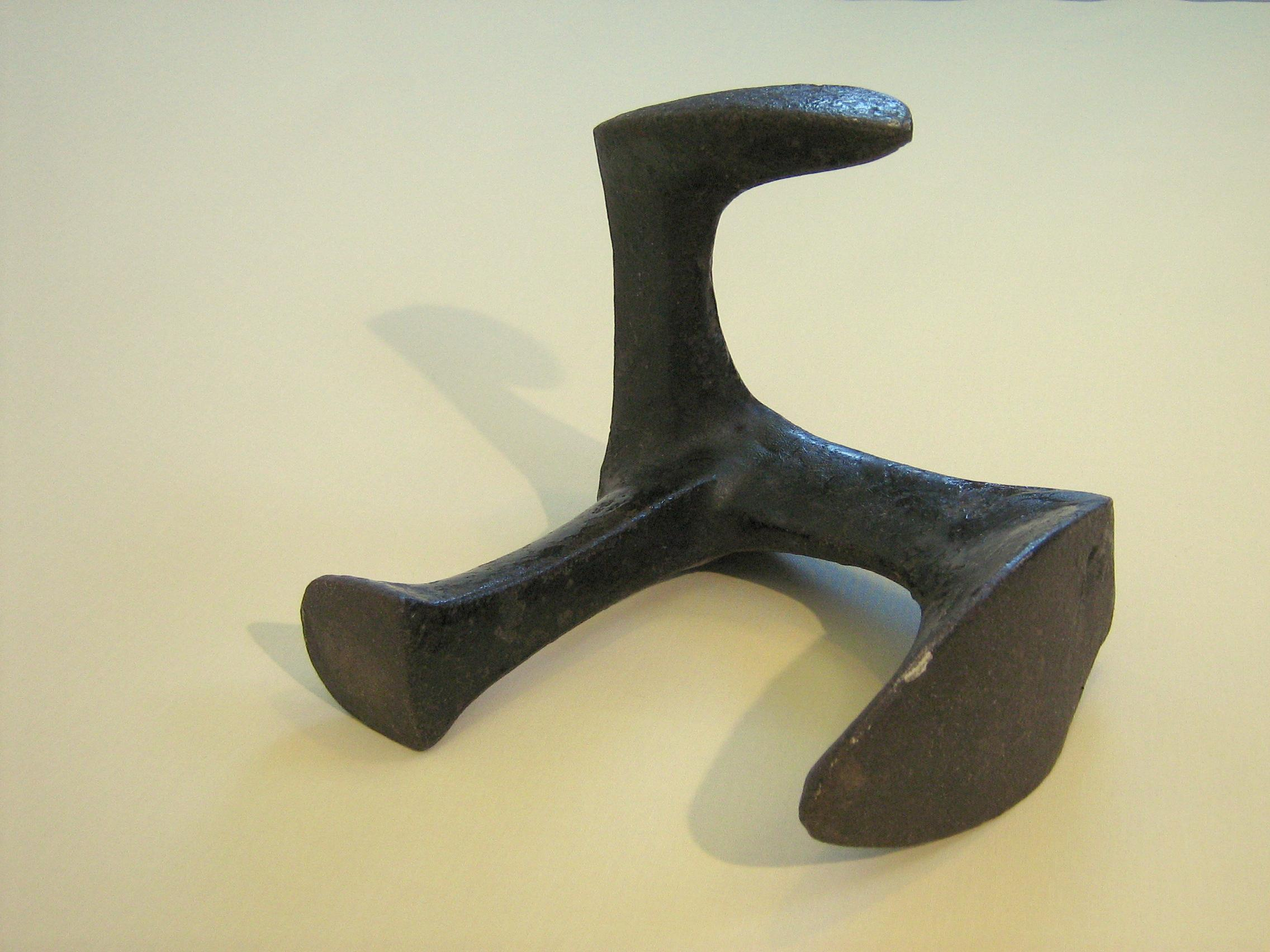 A boot tree. A metal tool, used for making and repairing shoes.